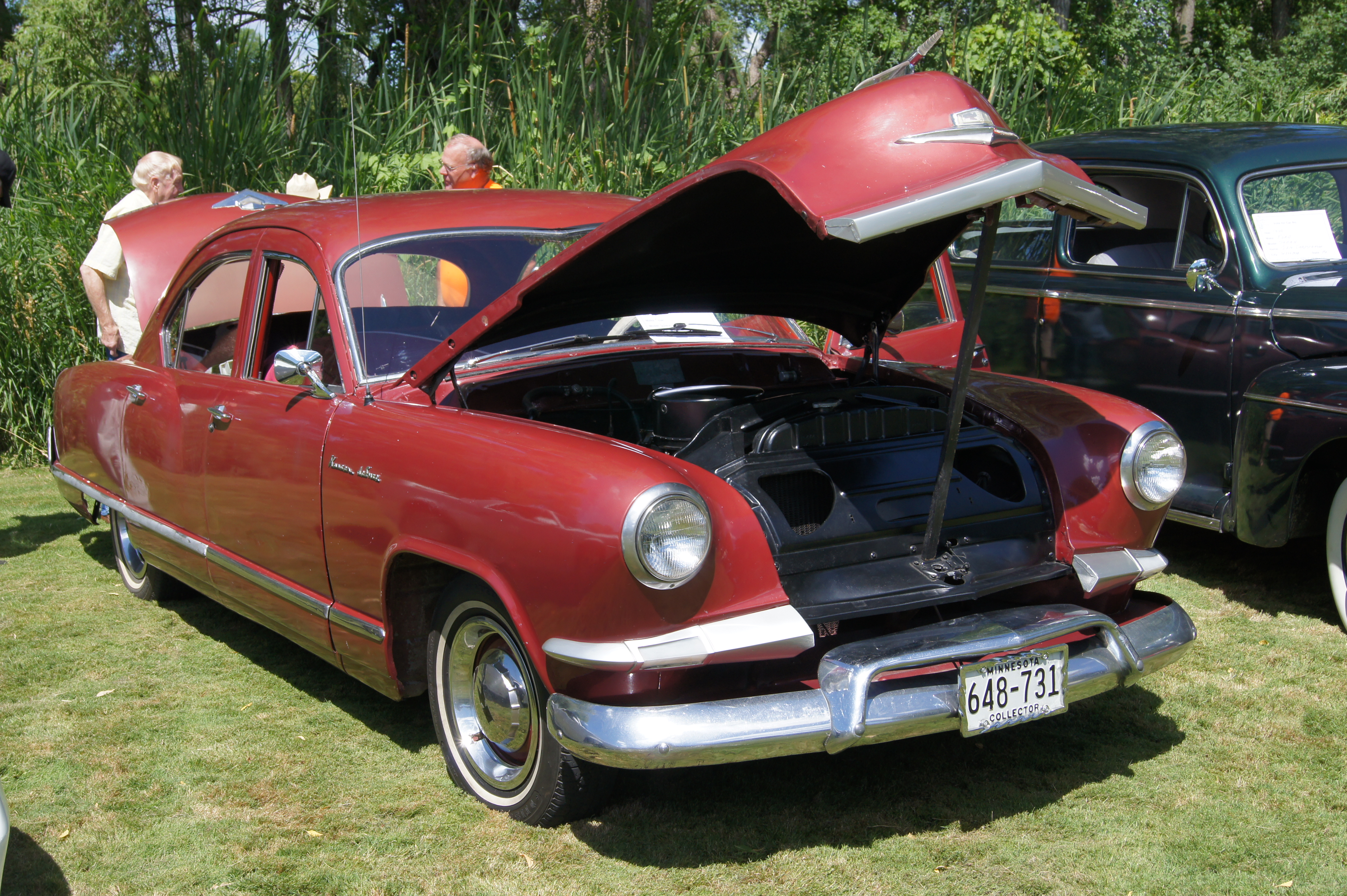 Paul and Carol hosted the 7th Annual "The Classic Cruise In" Another success: great food, fun and excellent weather